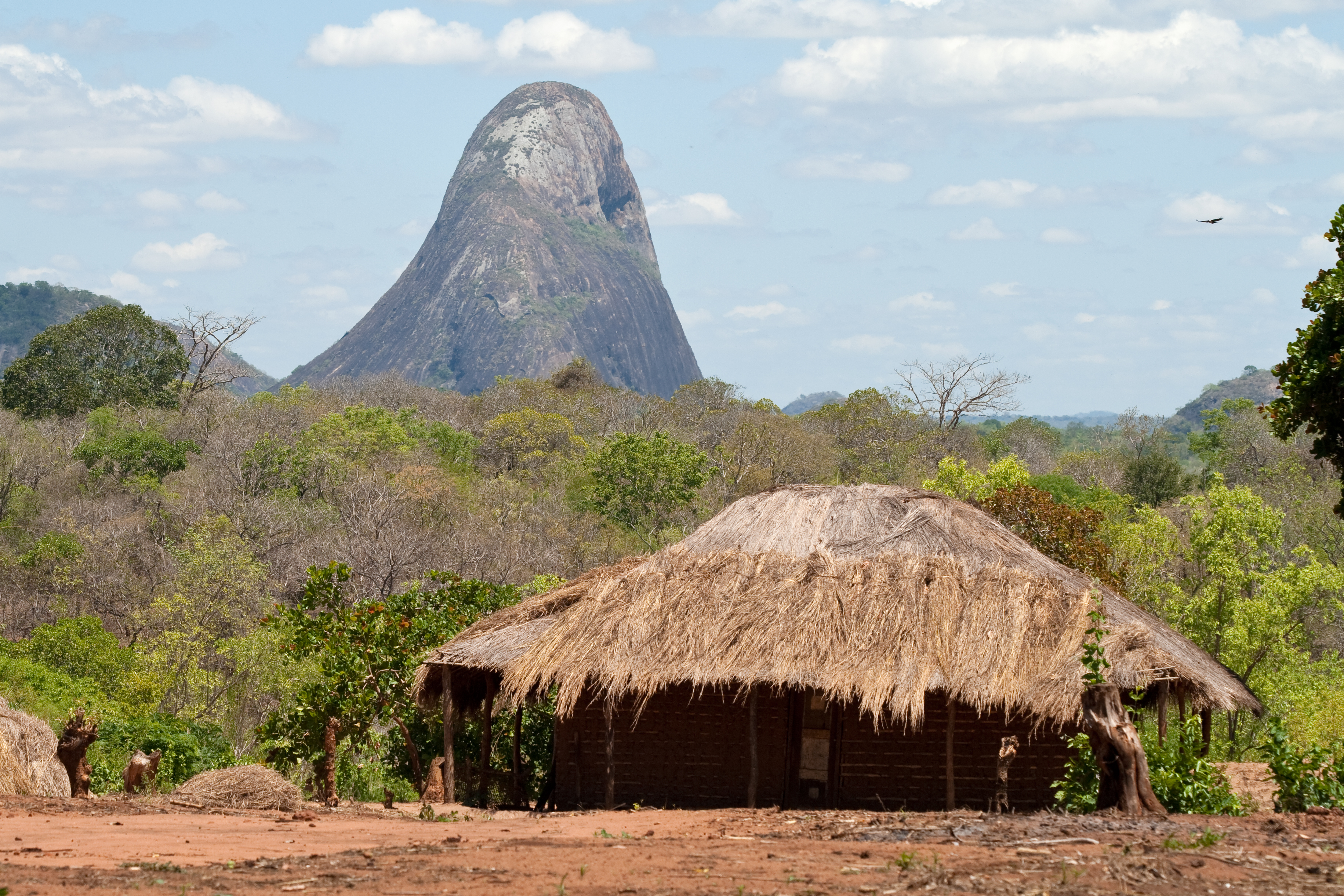 A hut in Nivali, Nampula province, Mozambique, and one of the characteristic "inselbergs" spread around in the landscape.